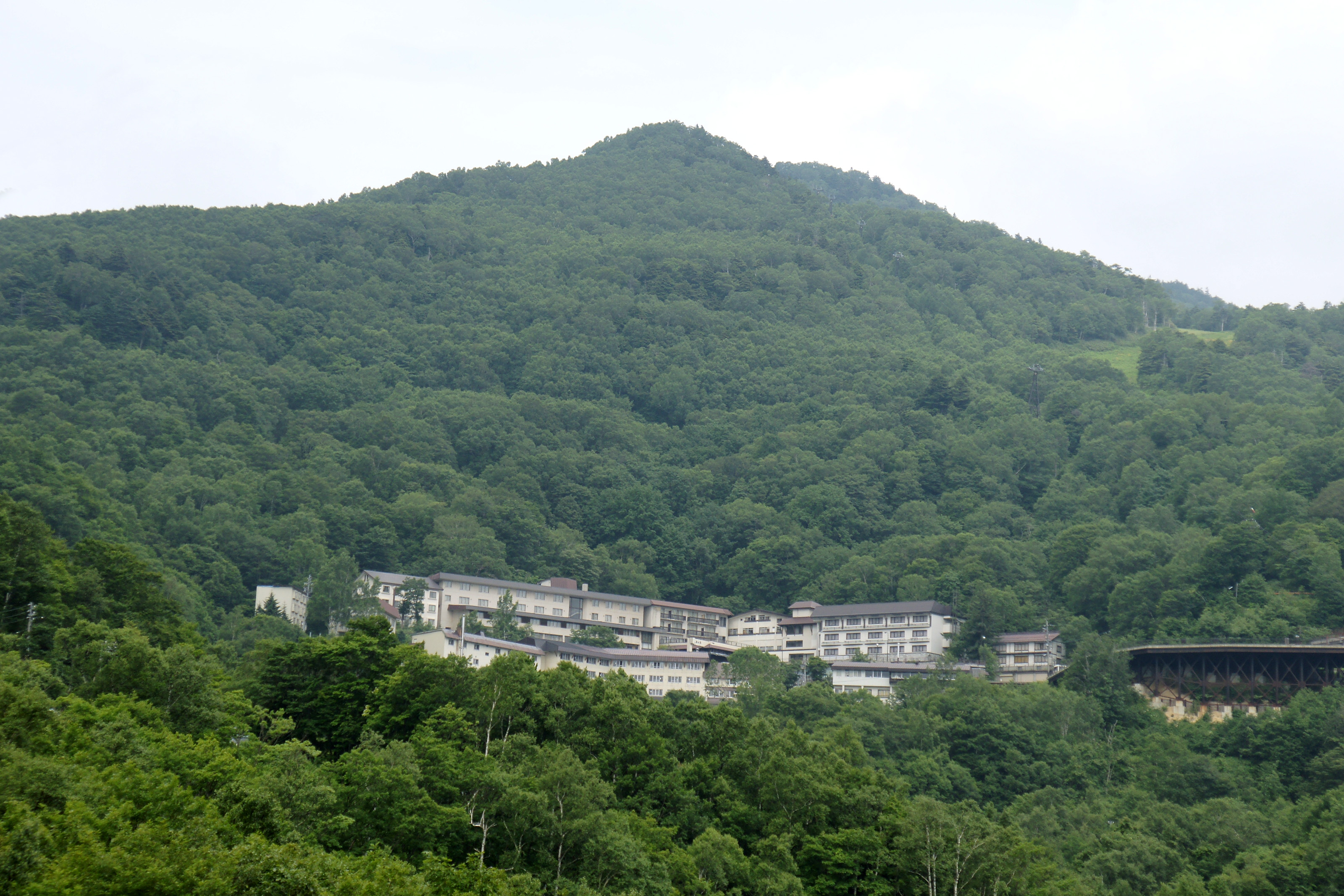 Mt. Higashidate and Hoppo Onsen ,Yamanouchi, Nagano prefecture, Japan